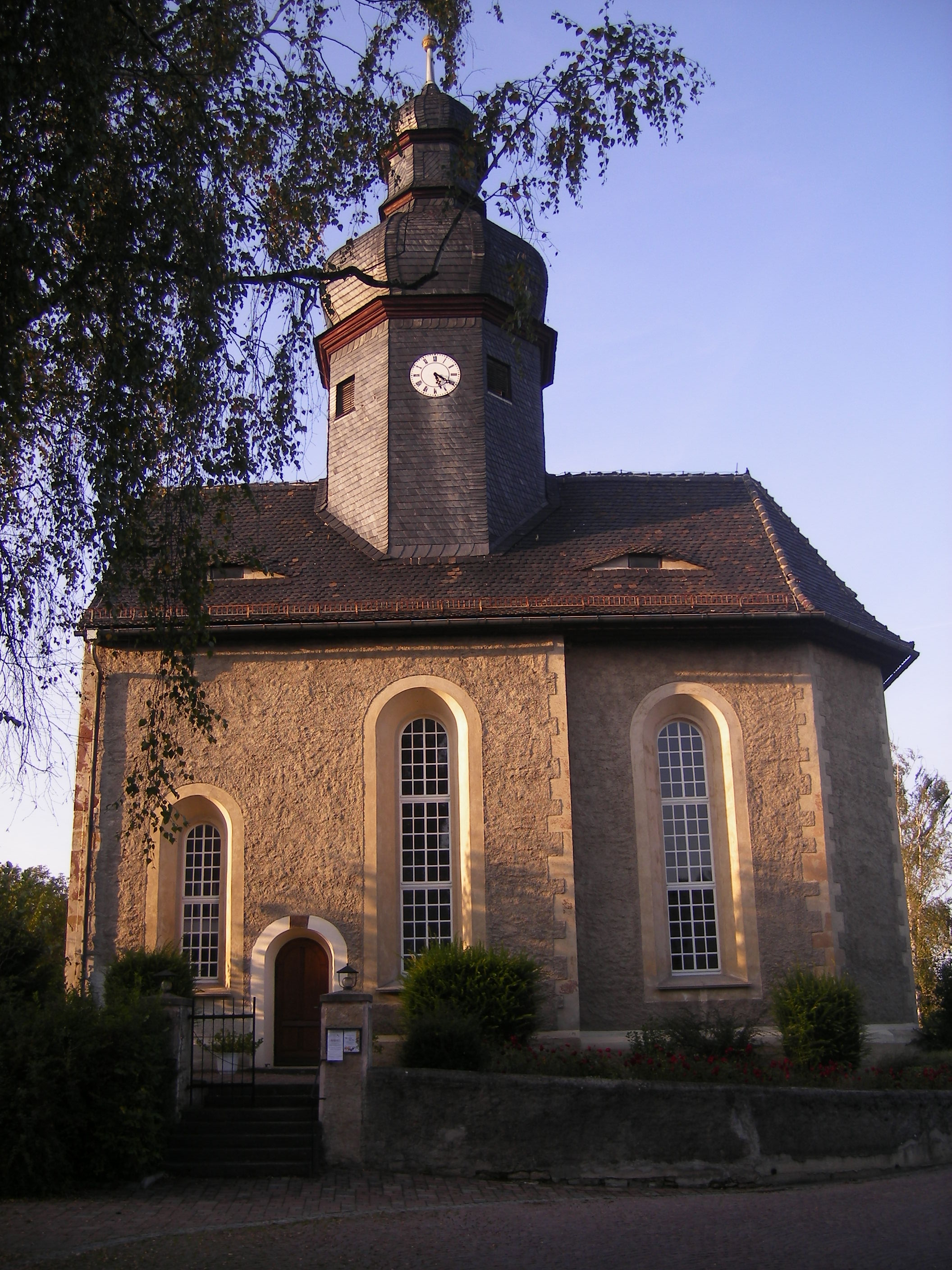 The church in Weißbach, near Schmölln in Thuringia/Germany